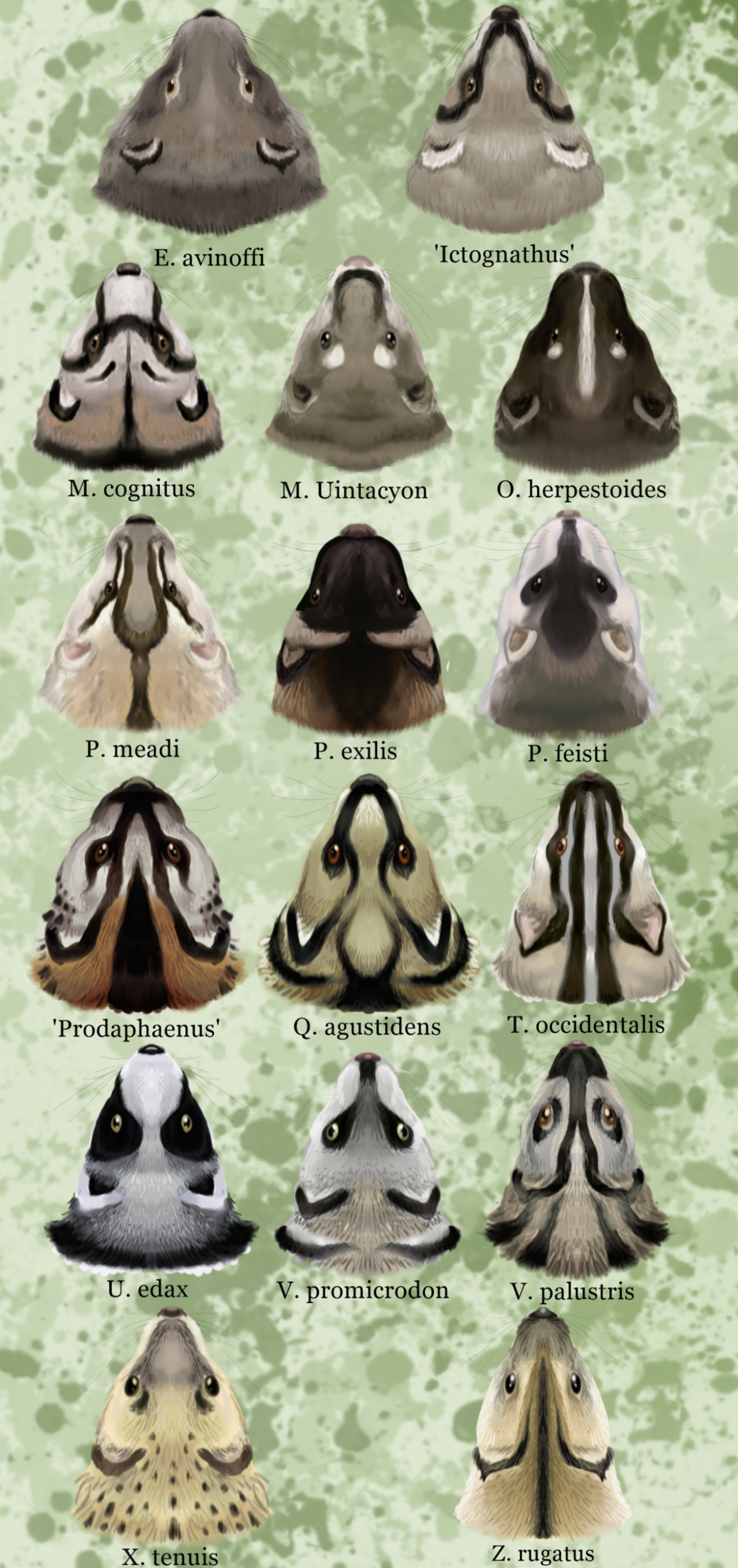 Genera in miacidae